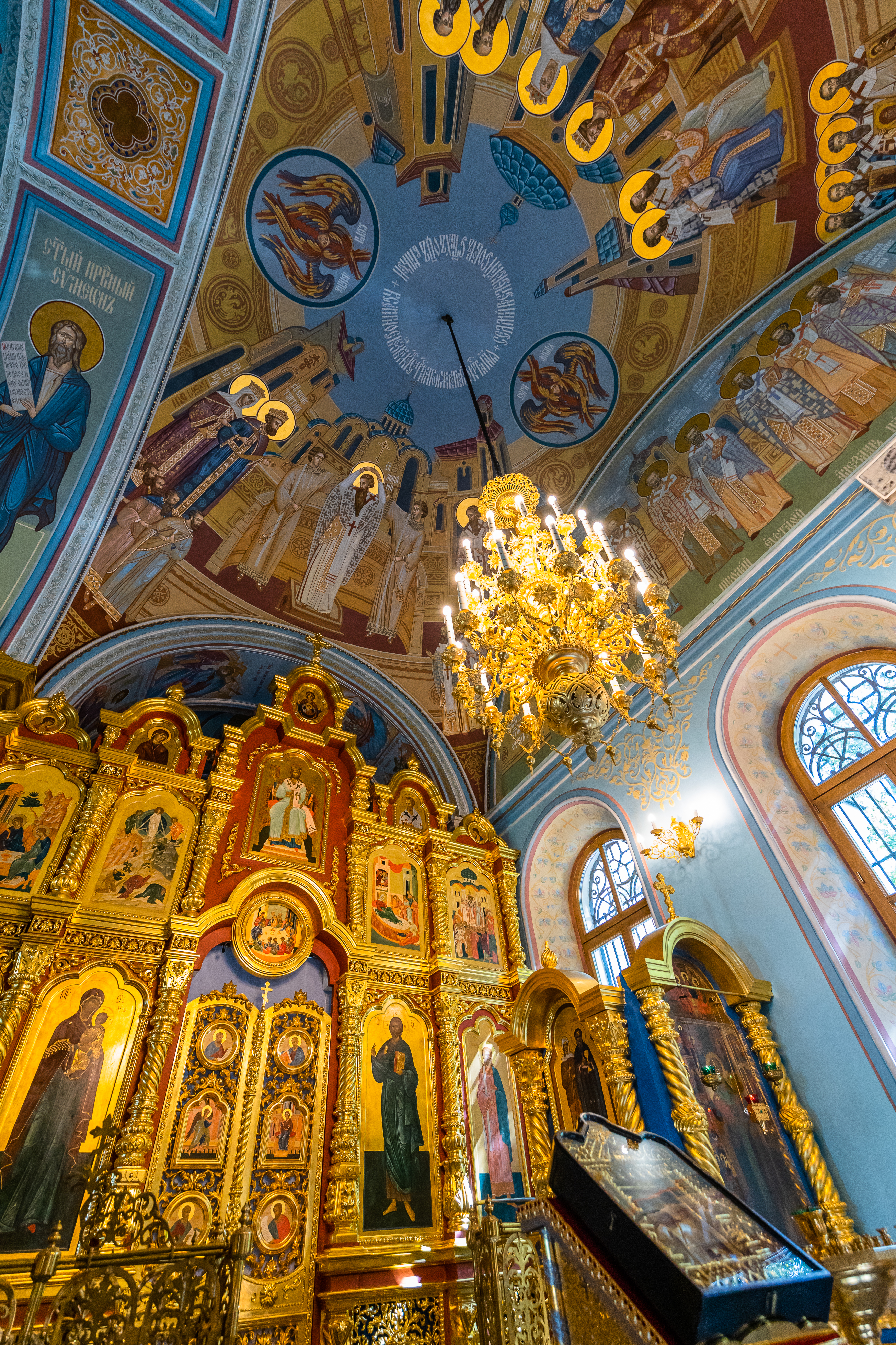 Main iconostasis and dome of Church of Trinity in Troitse-Lykovo, Moscow